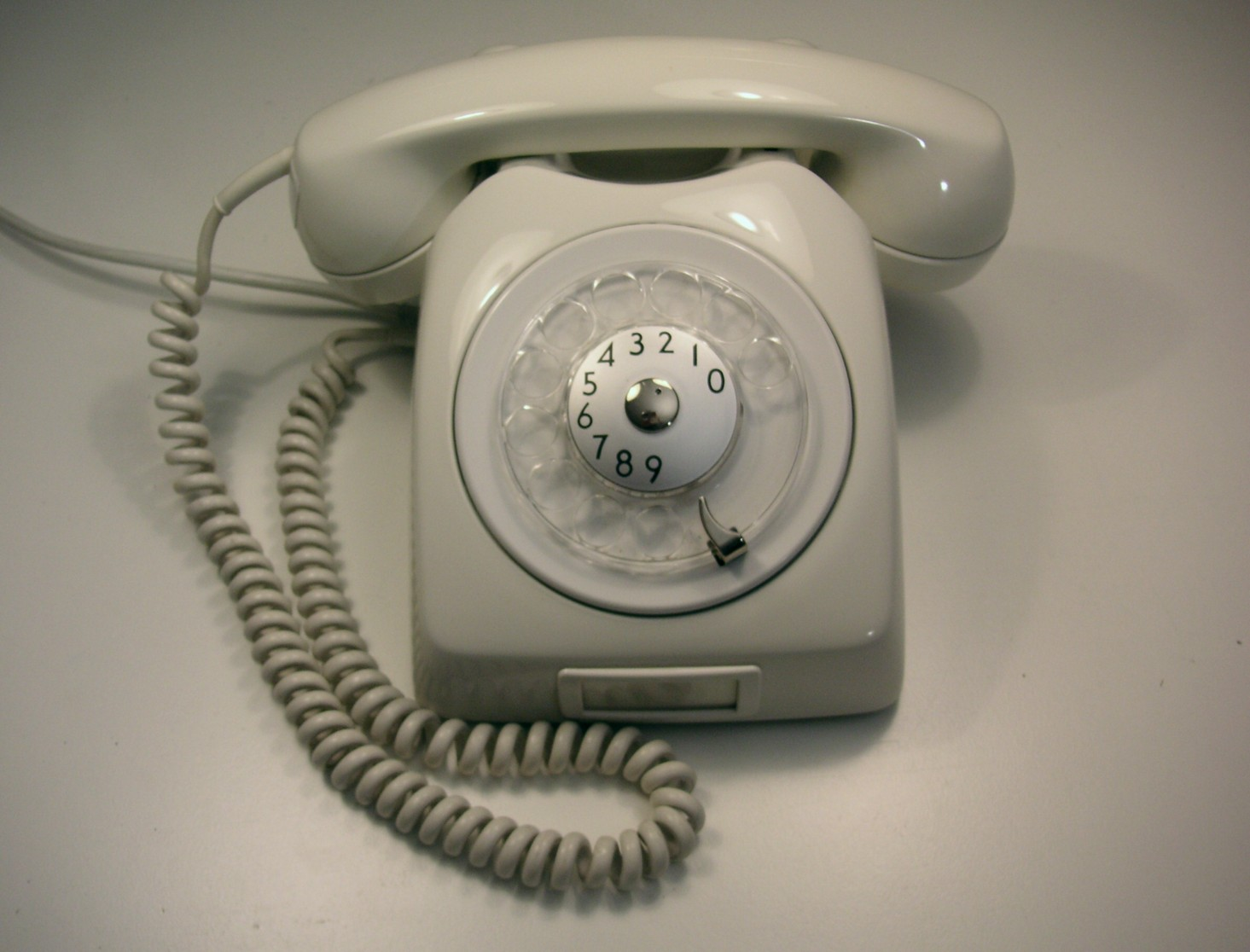 Ericsson Dialog rotary dial telephone, made in 1966 by Ericsson for Televerket (national telecom) of Sweden (now TeliaSonera).